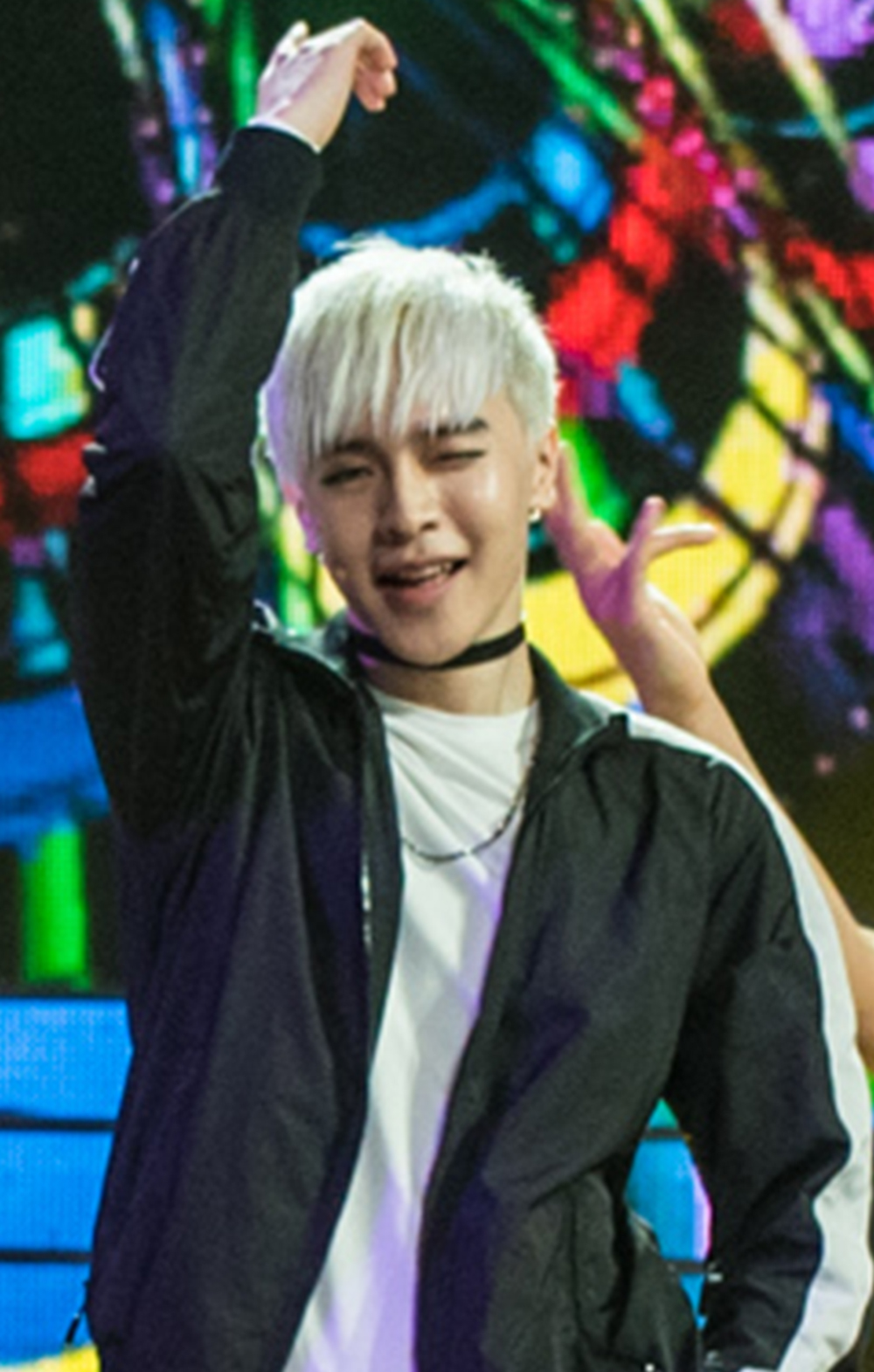 Krystian Wang performing at The Voice Kids Russia, in April 2018.